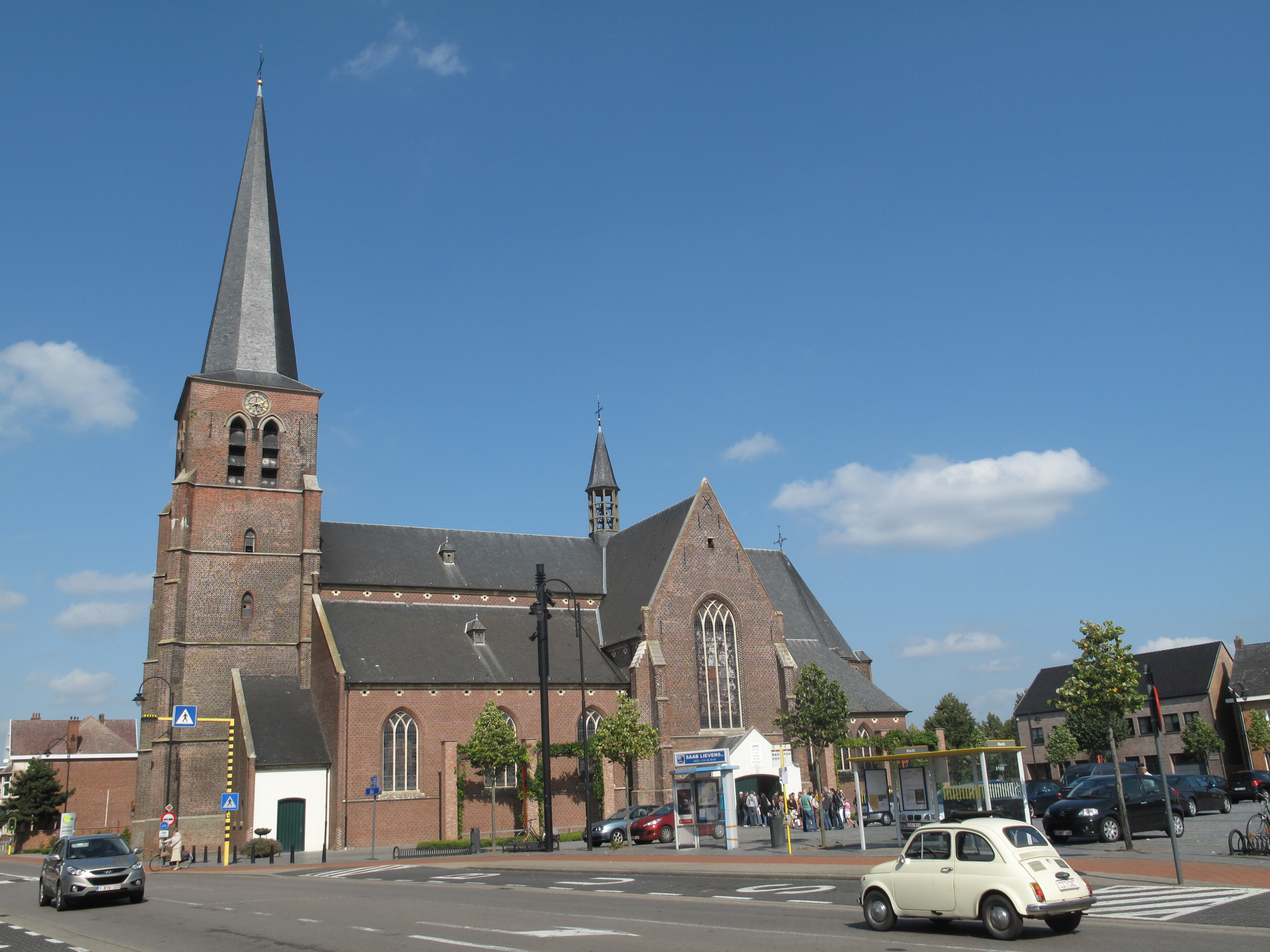 Dessel, church: parochiekerk Sint Niklaas